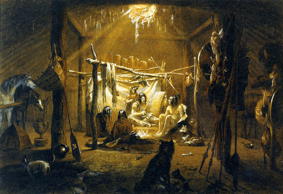 The Interior of the Hut of a Mandan Dipäuch. Mixed media on paper by Karl Bodmer 1833 – 1834.